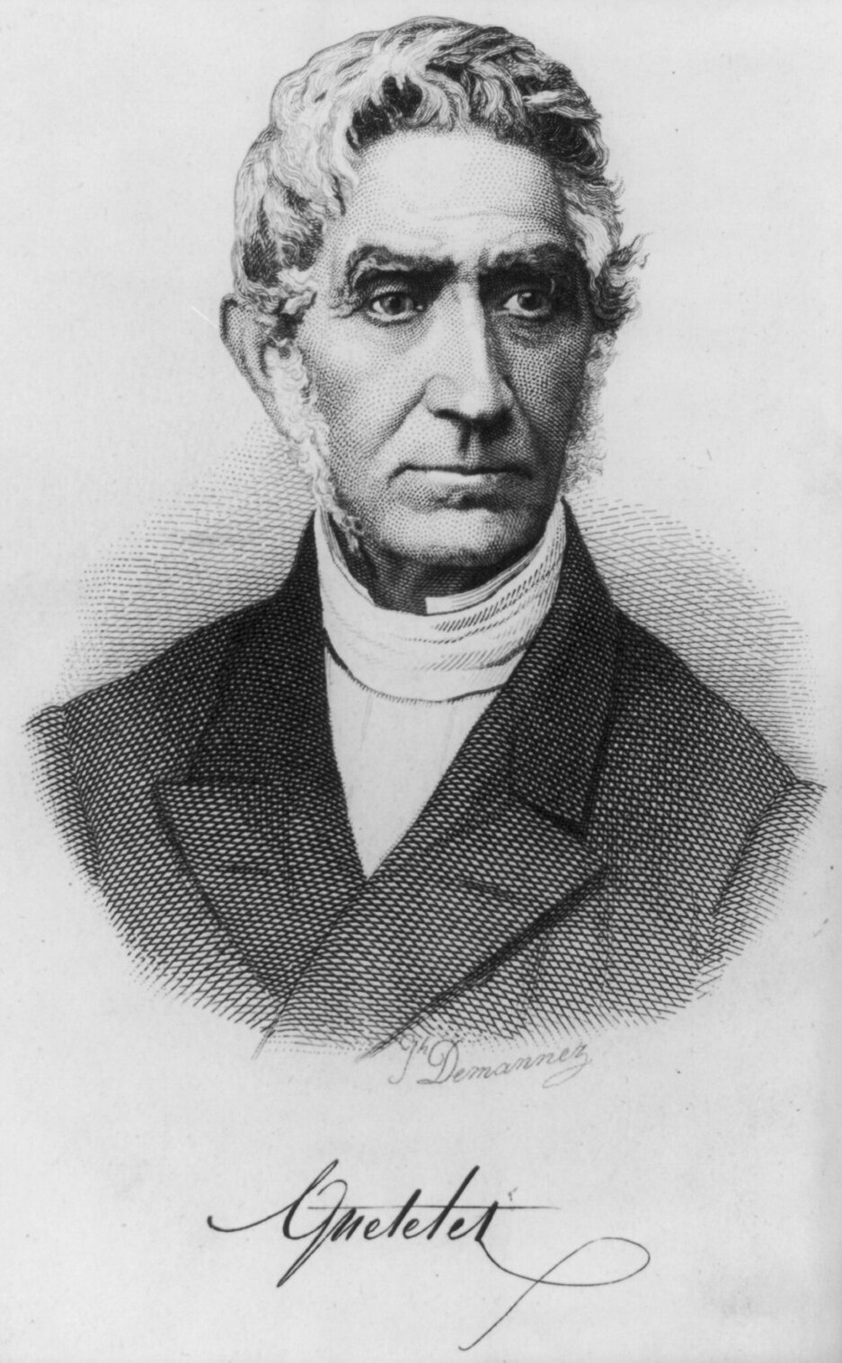 Portrait of Belgian astronomer, mathematician, statistician and sociologist Adolphe Quételet (1796-1874) by Joseph-Arnold Demannez (1825-1902). Steel engraving.